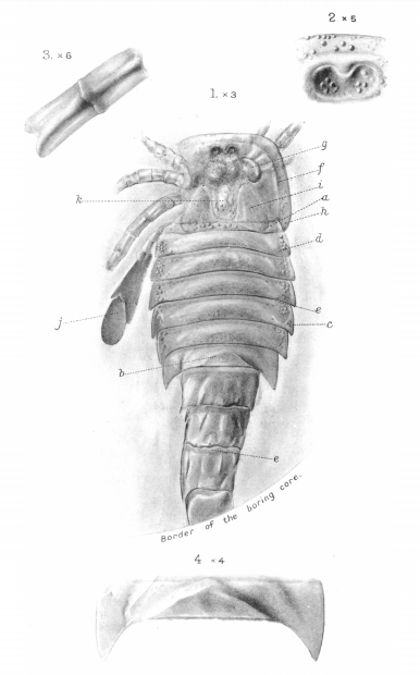 Fossils of the eurypterid species Adelophthalmus dumonti. Fig. 1 a. First thoracic segment b. Last thoracic segment, with its triangular upraised area c. Marginal spiniferous processes, without striæ, of the segment d. Granules on the carapace e. Articulating surface of the thoracic and abdominal segments f. Marginal ridge of the cephalic shield g. Right eye h. Protruded lateroposterior angles of the shield i. Hollows corresponding with the basal joints of the ectognaths j. Swimming-foot, showing the terminal palette with the rounded and regular outline of its end k. U-shaped ridge Fig. 2 Marginal ridge of the cephalic shield Fig. 3 First appendage, to show the knob or pad on the posterior border of the articulation Fig. 4 Triangular upraised area of the last thoracic segment as seen from the left, to show its slopes